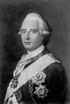 Charles of Hesse-Cassel (1744-1836)